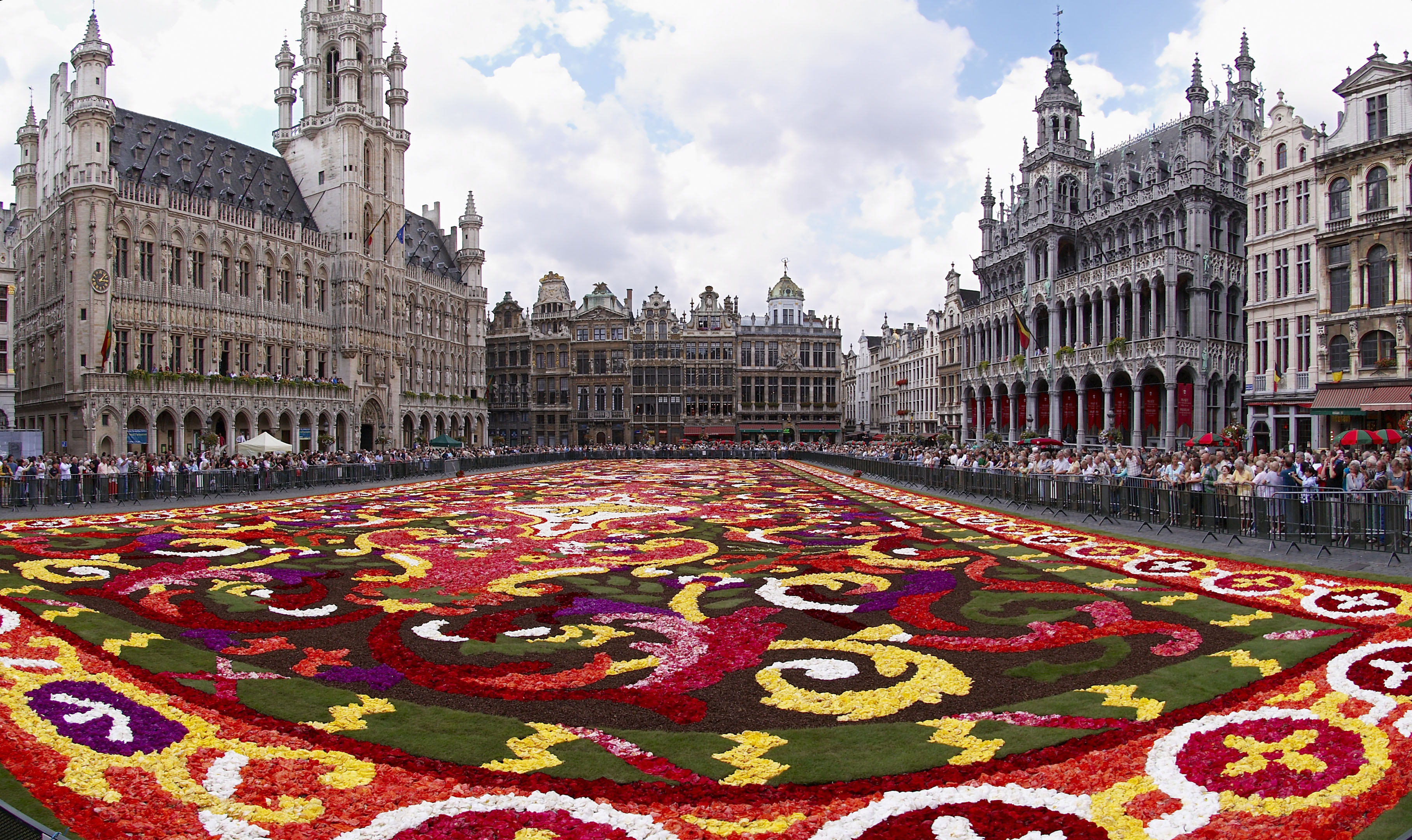 Floral carpet on the Grand Place in Brussels, Belgium